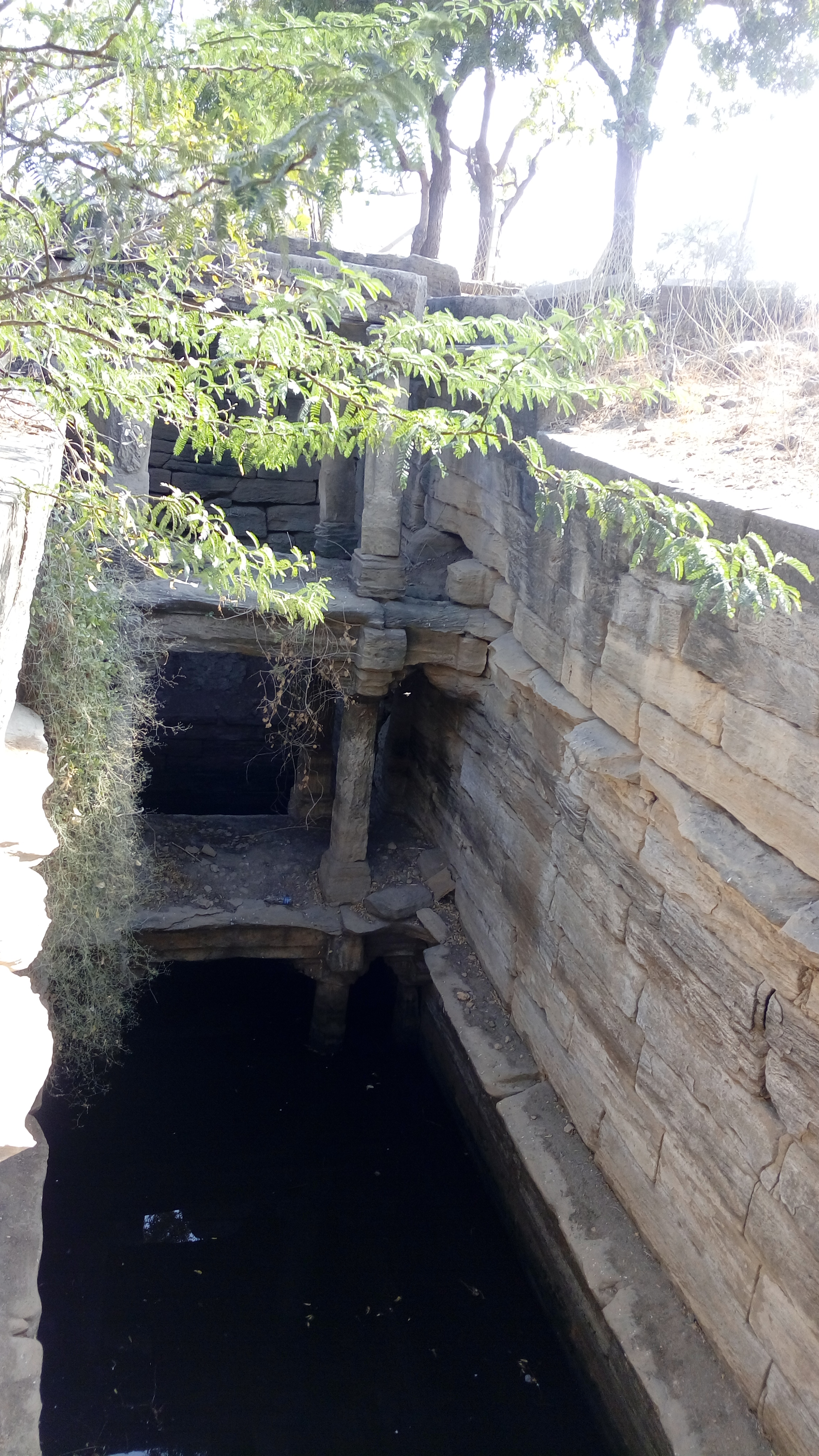 Duda Vav, a stepwell at Bhadreshwar, Kutch, Gujarat, India